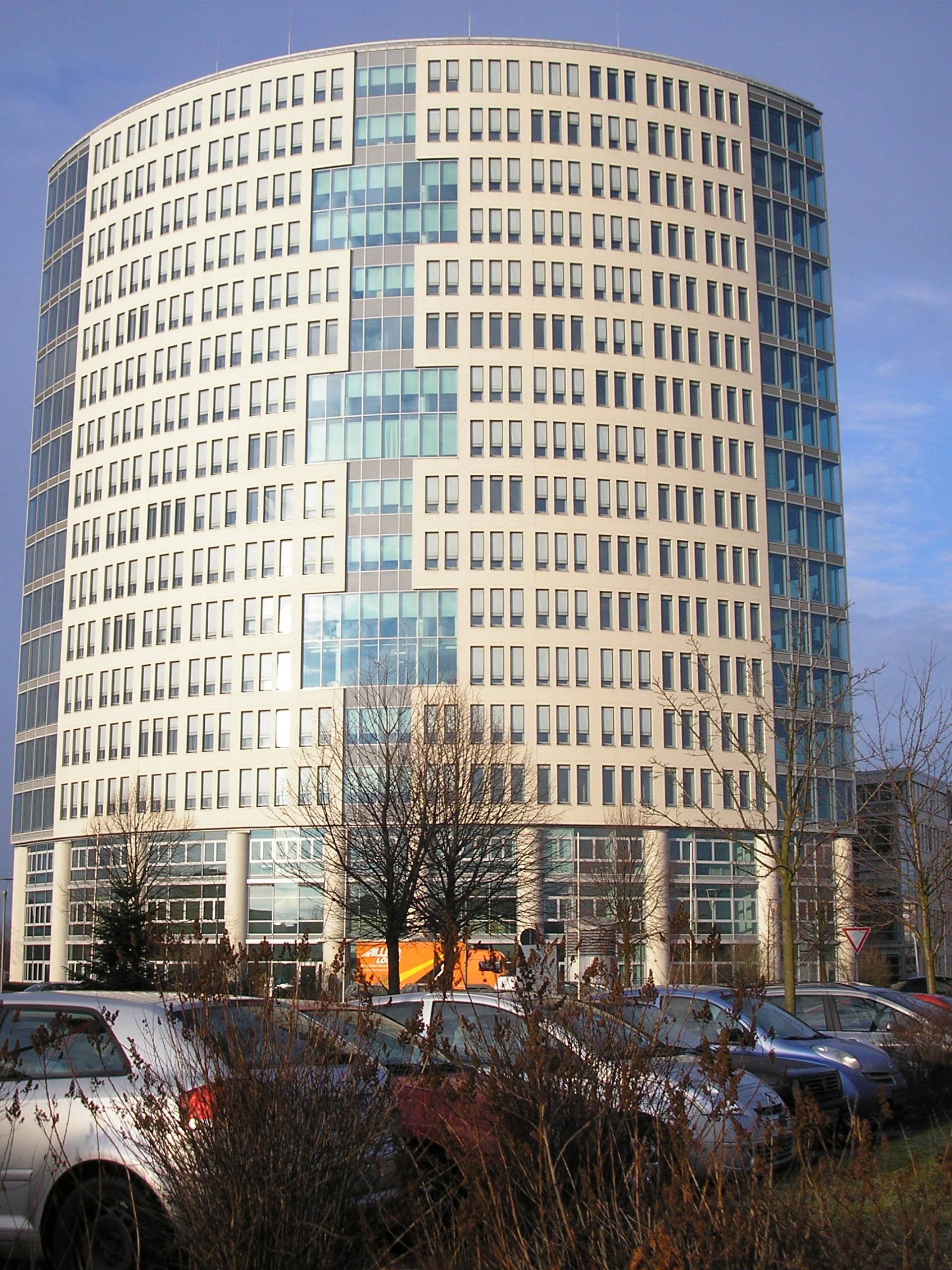 Pullmann Tower, Airport Business Park Cologne